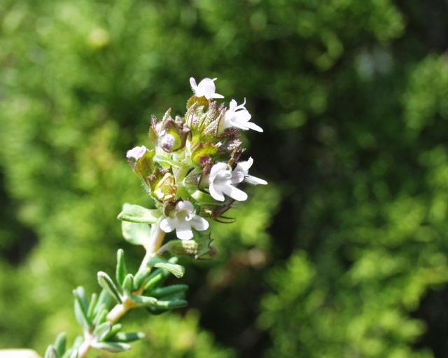 (en) Garden Thyme (Thymus vulgaris), in France (Bouche du Rhône), a photography originating of the internet site The accord of the autor, H. Brisse, is here. (fr) Thym commun (Thymus vulgaris), en France (Bouche du Rhône), une photographie issue du site internet L'accord de l'auteur, H. Brisse, se situe ici. (de)Echter Thymian, (it)Timo maggiore, (es)Tomillo común